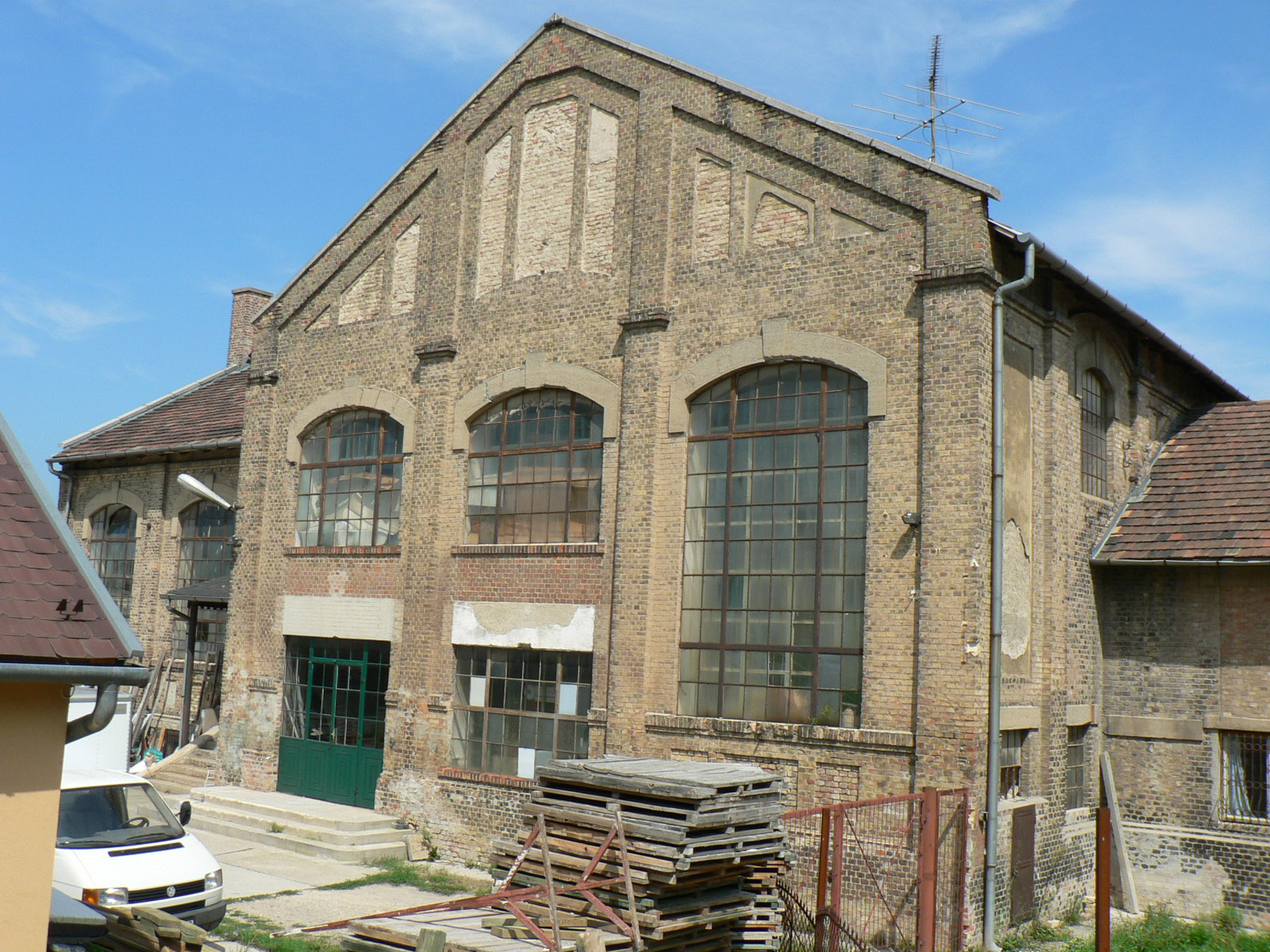 A Solymár-akna gépháza délkelet felől nézve